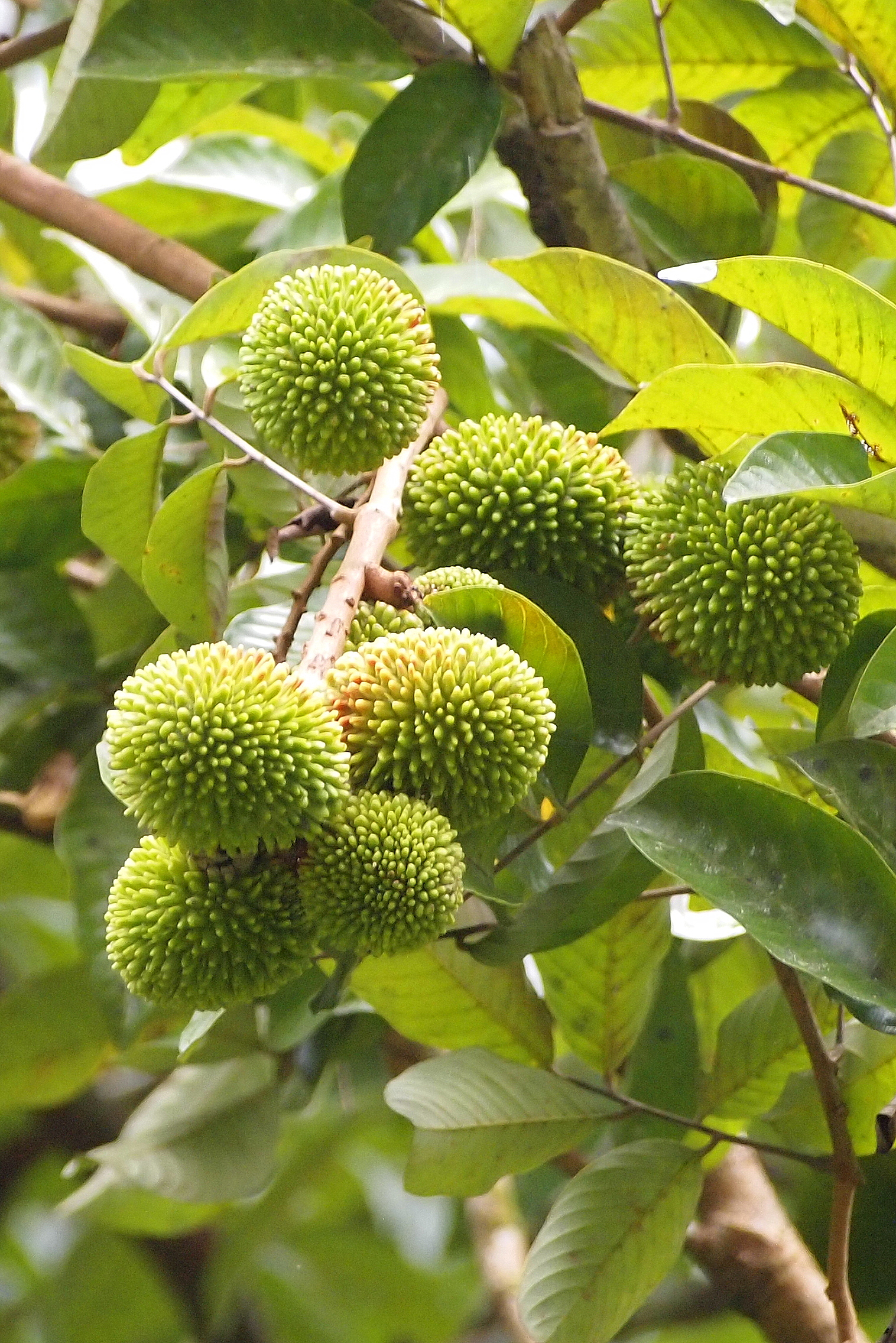 Nephelium mutabile / Pulasan